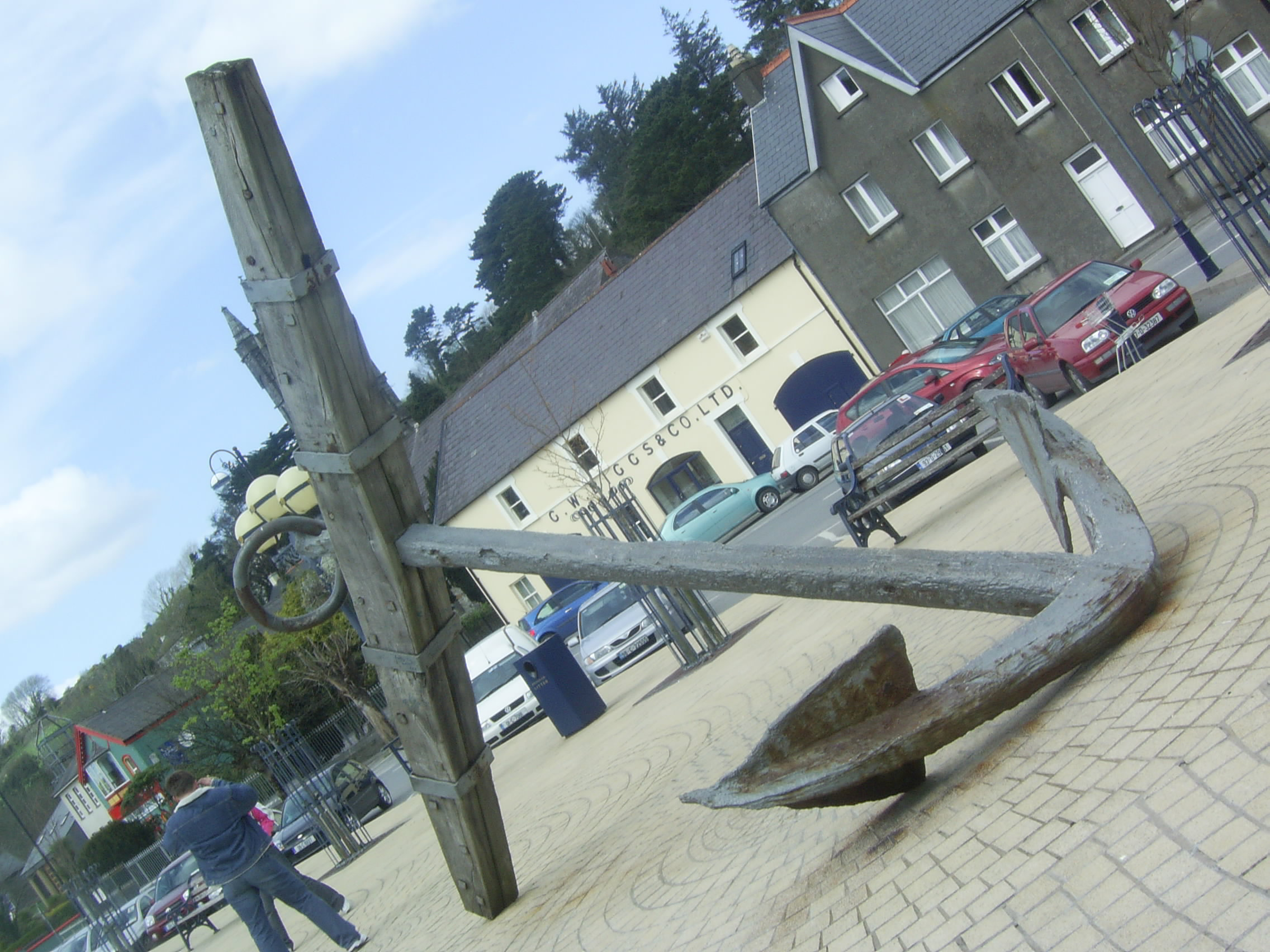 Anchor from the French Armada force Expédition_d'Irlande in 1796, discovered off northeast of Whiddy island, Bantry Bay, 1981 by the Dutch salvage company Smit Tak